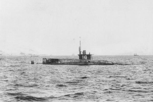 Japanese submarine No.16 (C3-class) on trial off Kure Port, renamed to HA-7 in 1923.